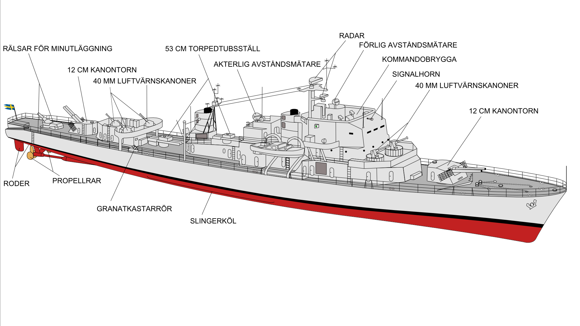 Östergötland class destroyer consisting of four ships built 1958-1959. Marked in Swedish.